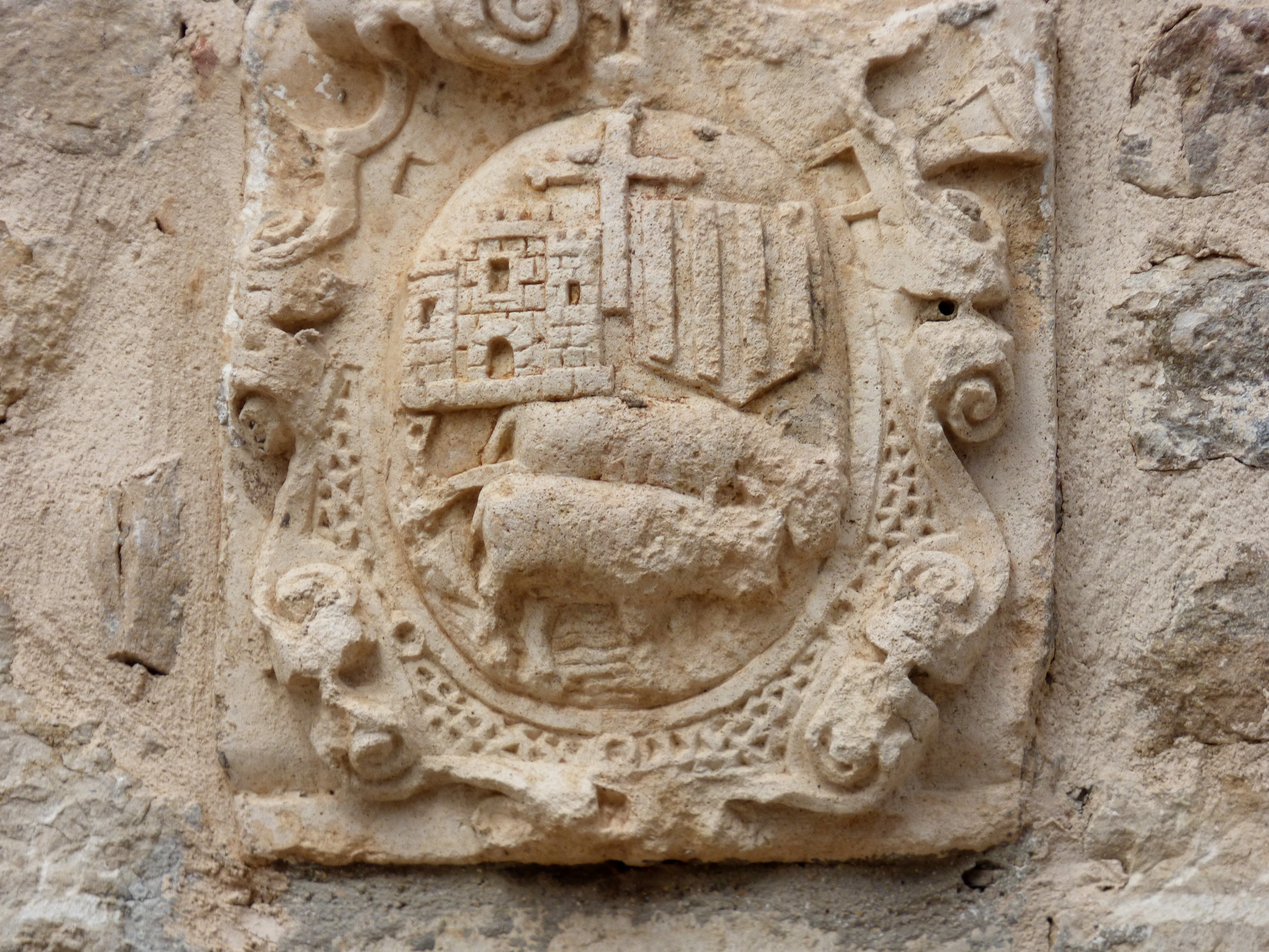 Coat of arms of Ares del Maestrat in the town hall